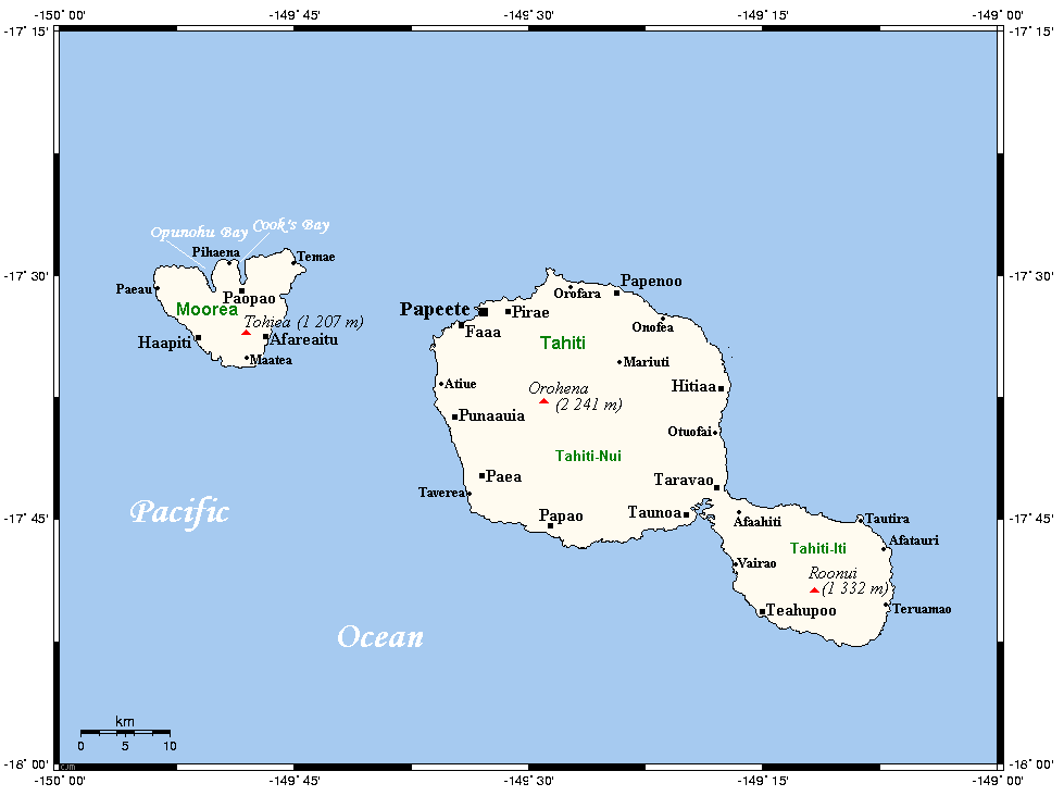 A map of Tahiti and Moorea in the Society Islands (French Polynesia) showing main centres and peaks